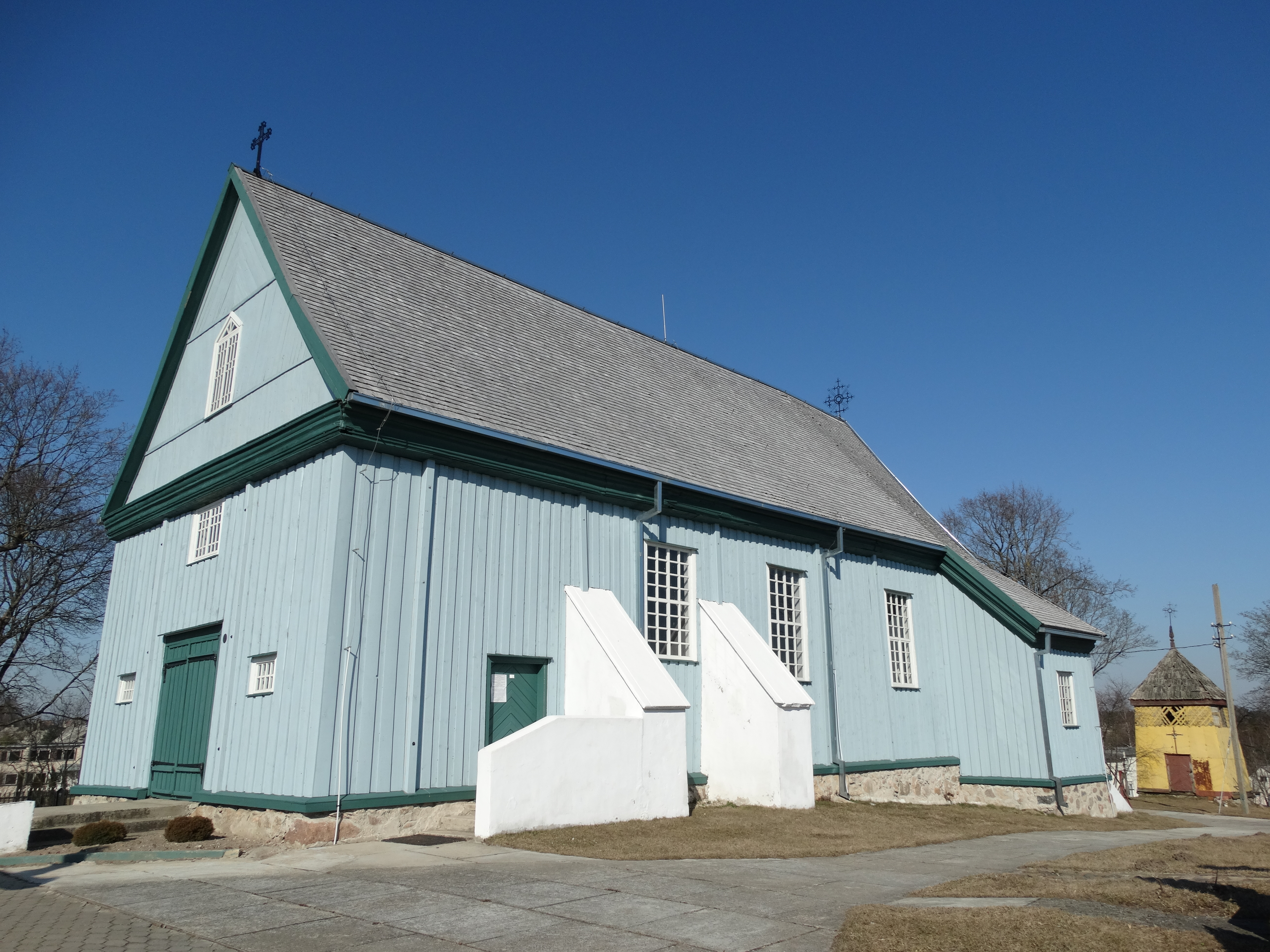 Holy Trinity Church, Šaukotas, Radviliškis district, Lithuania